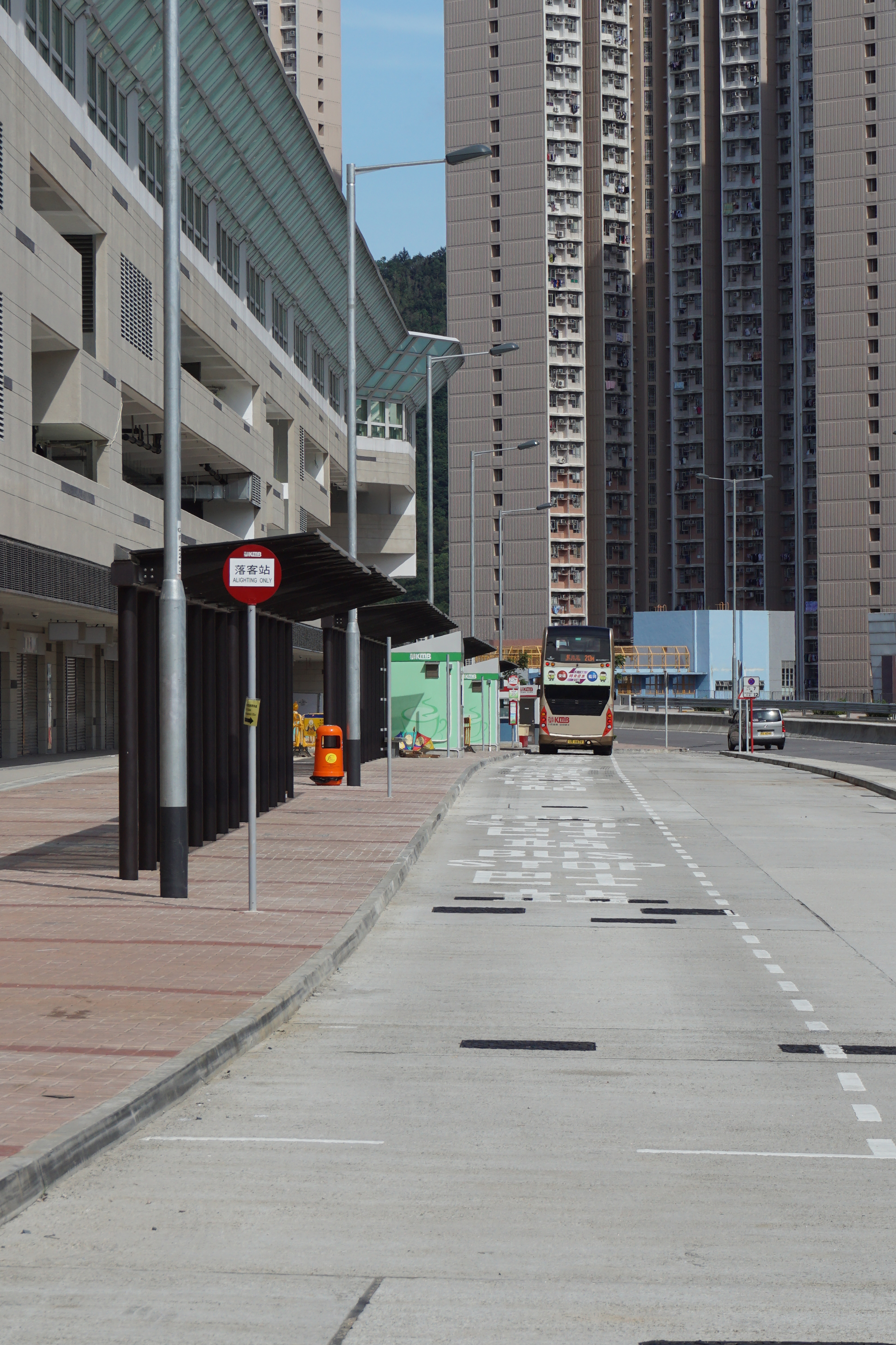 On Tat Bus Terminus in Kwun Tong, Hong Kong.